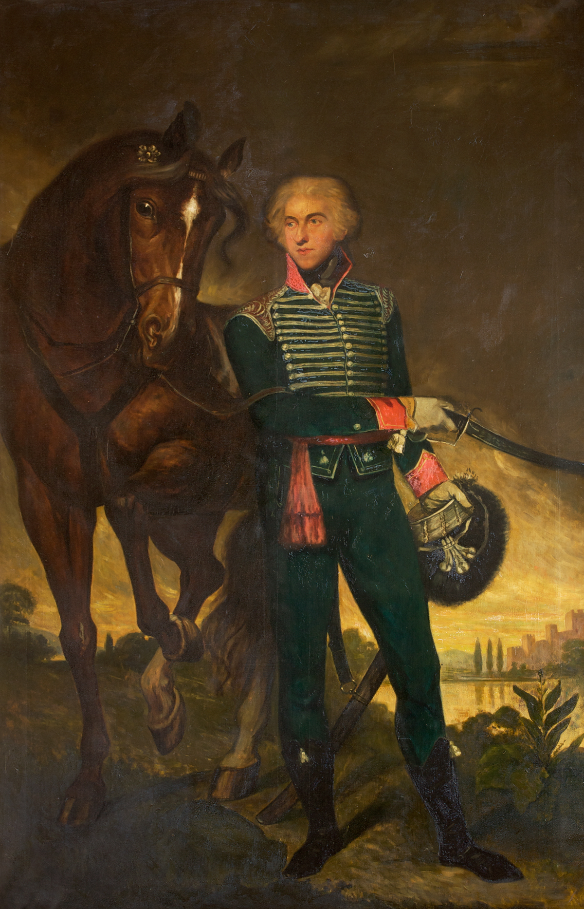 Portrait of John Leicester, 1st Baron de Tabley (1762–1827) as colonel of yeomanry.